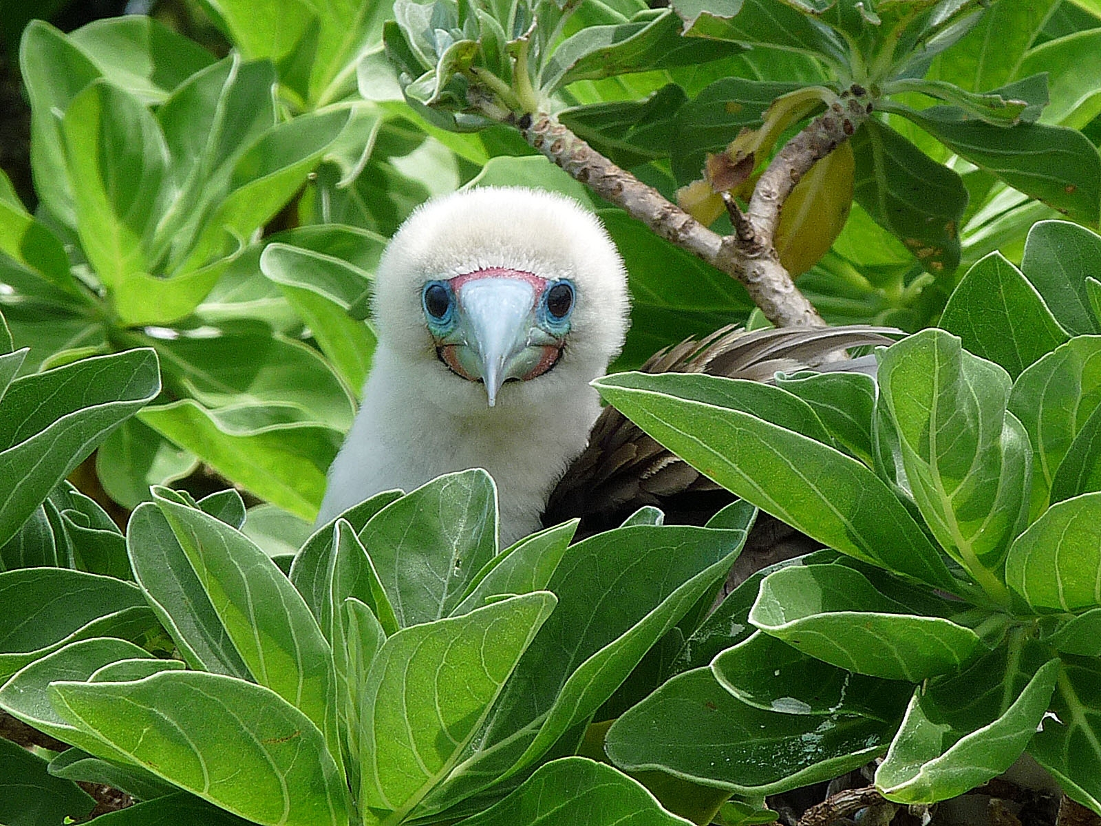 Palmyra Atoll National Wildlife Refuge, Pacific Islands (Photo: Laura Beauregard, USFWS) Conserving the Future - In July, 2011, thousands of Service employees, partners of the Service and wildlife enthusiasts gathered in Madison, WI for the 'Conserving the Future' conference that outlined a new, decade-long conservation plan for wildlife.